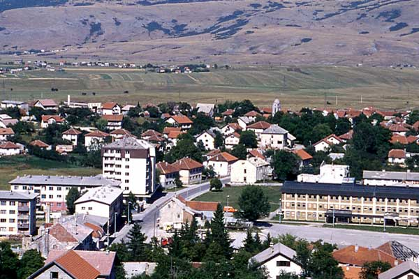 Panoramic view of Glamoč, Bosnia and Herzegovina